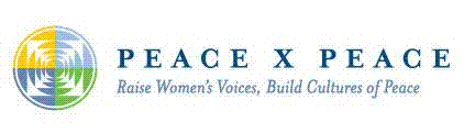 This is the organization logo of my employer, Peace X Peace